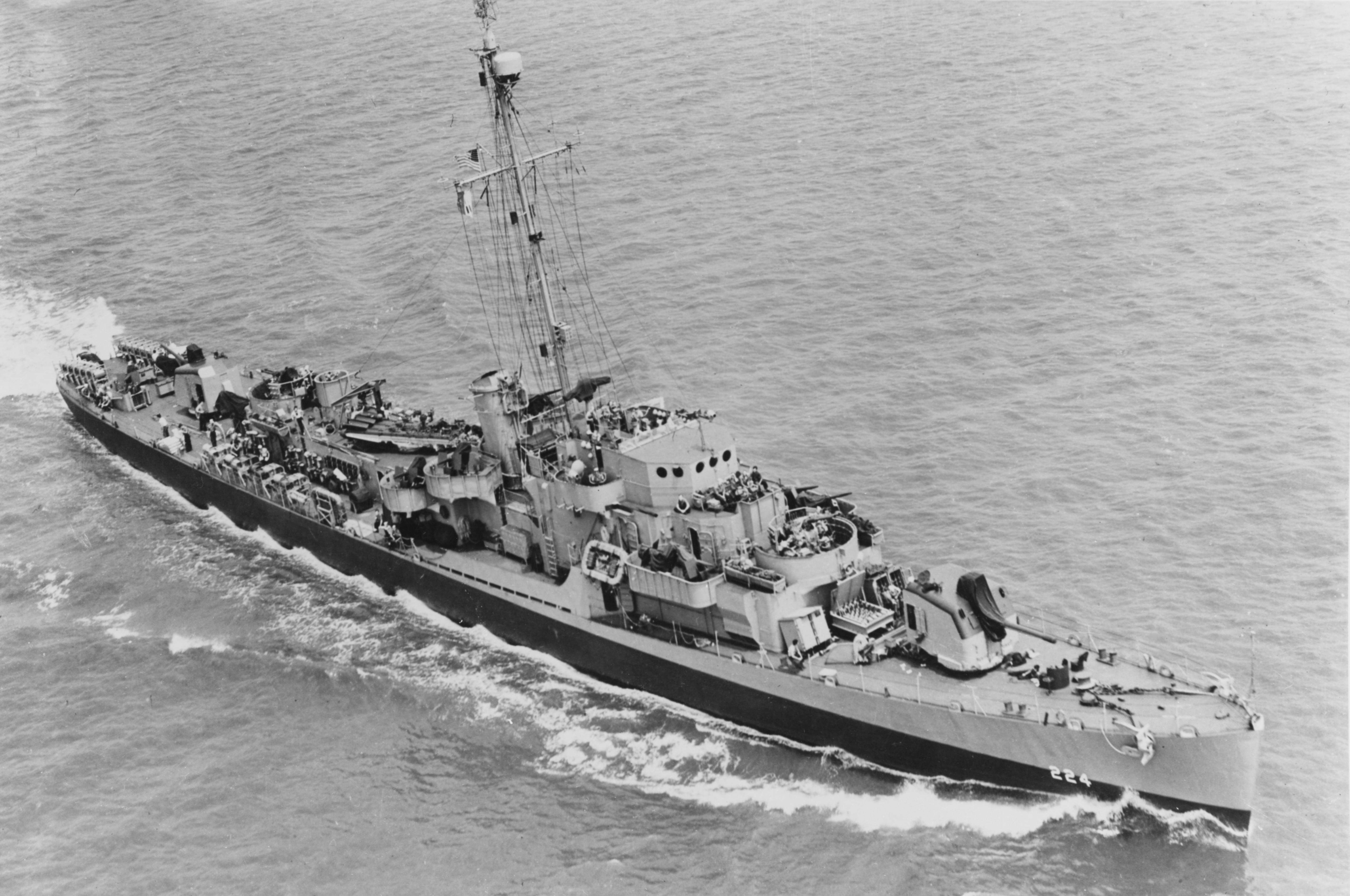 The U.S. Navy destroyer escort USS Rudderow (DE-224) underway off the Philadelphia Naval Shipyard, Pennsylvania (USA), on 15 July 1944.